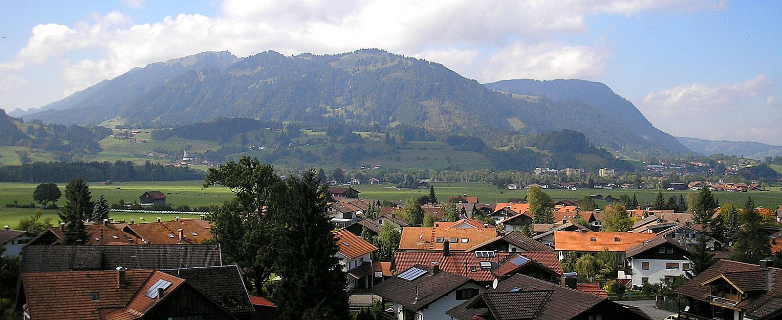 Burgberg (Landkreis Oberallgäu, Bavaria, Germany). The Nagelfluhkette near Immenstadt (Allgäu Alps), seen from Burgberg castle